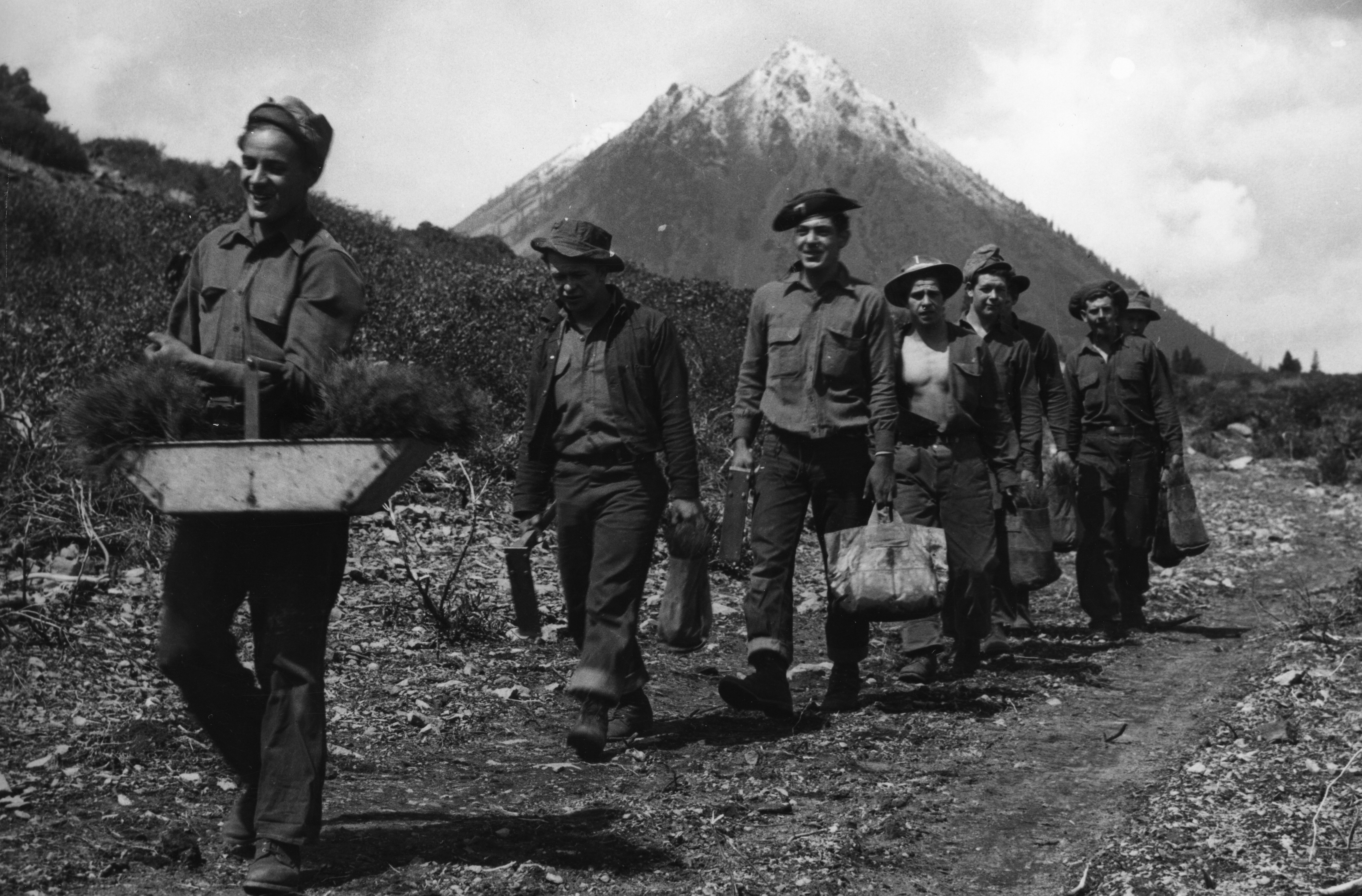 Description/Notes: USFS photo #413770. Original Collection: Gerald W. Williams Collection Item Number: WilliamsG:CCC_planting seedlings You can find this image by searching for the item number by clicking here. Want more? You can find more digital resources online. We're happy for you to share this digital image within the spirit of The Commons; however, certain restrictions on high quality reproductions of the original physical version may apply. To read more about what “no known restrictions” means, please visit the Special Collections & Archives website, or contact staff at the OSU Special Collections & Archives Research Center for details.